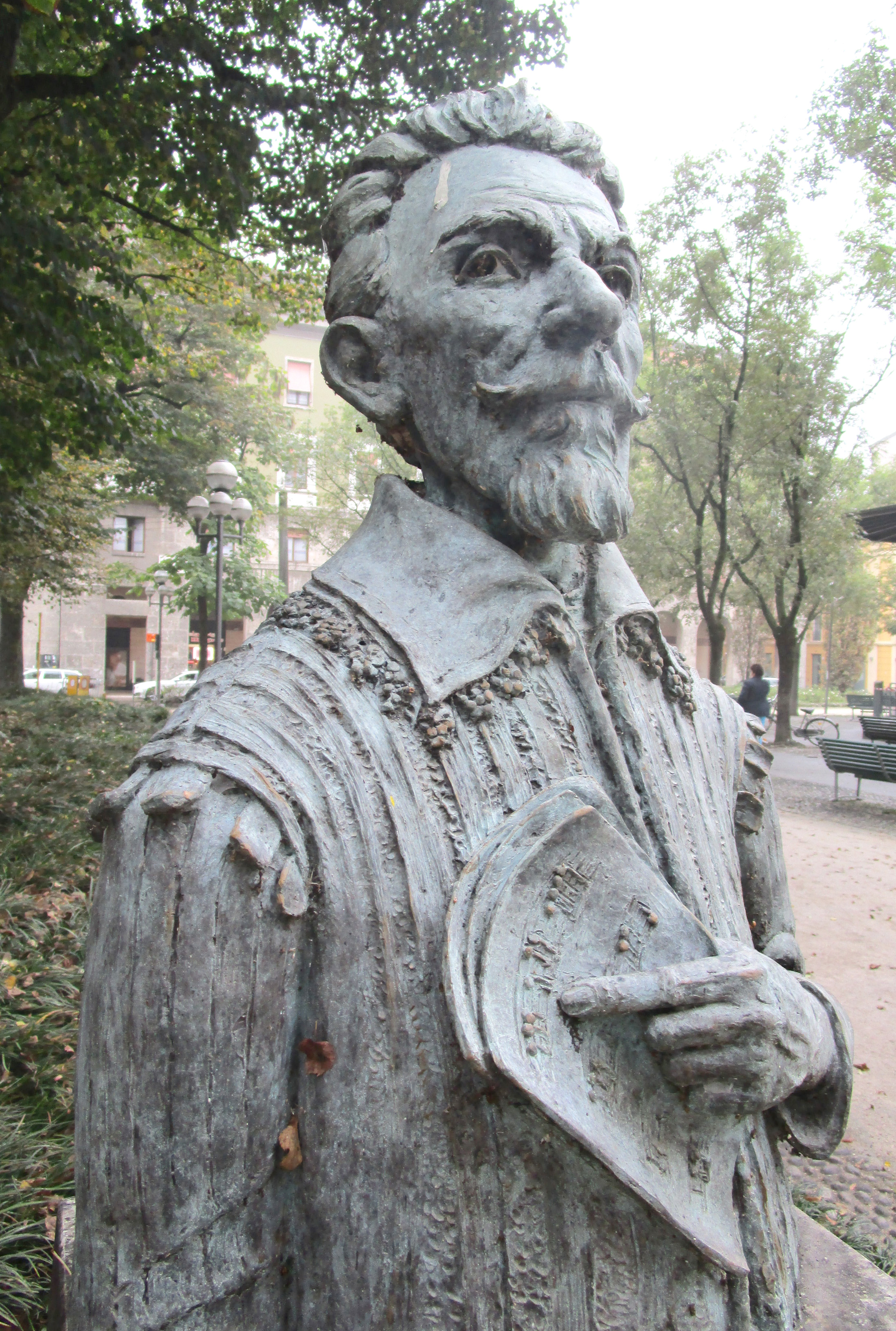 Bronze bust of Claudio Monteverdi in cremona, Italy